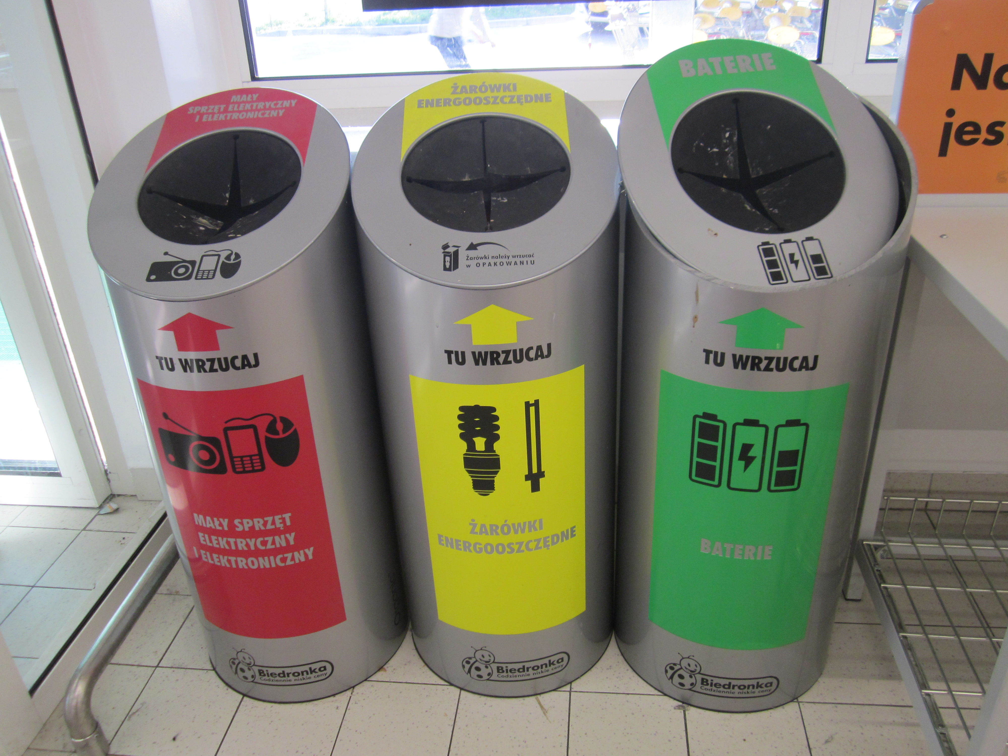 Interior of Biedronka in Białystok. Waste collection, at 11 Wrocławska Street.